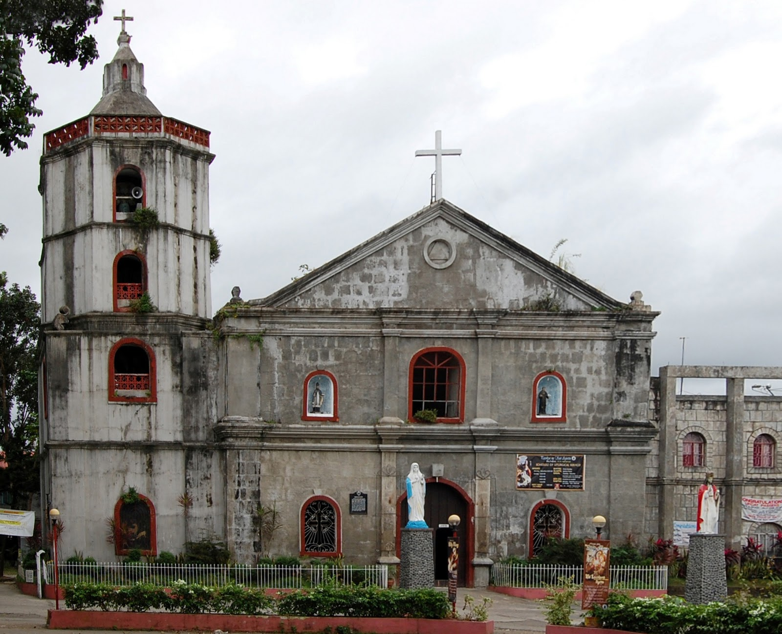 The Church of St. Augustine in Ba-y, Laguna was constructed in 1804, damaged during World War II and restored in 1953.